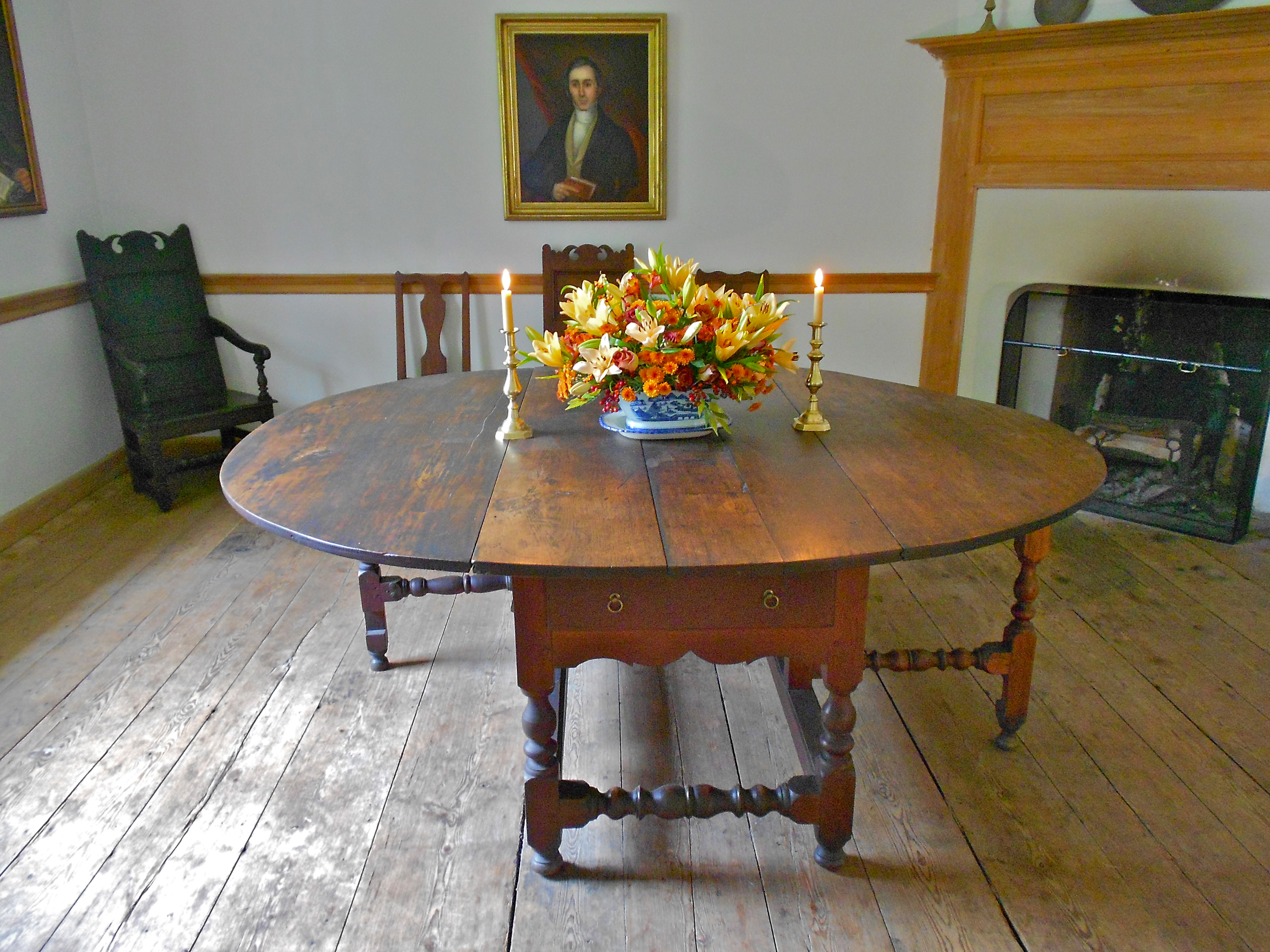 Gate leg table in Primitive Hall, in Chester County, Pennsylvania. On the NRHP.